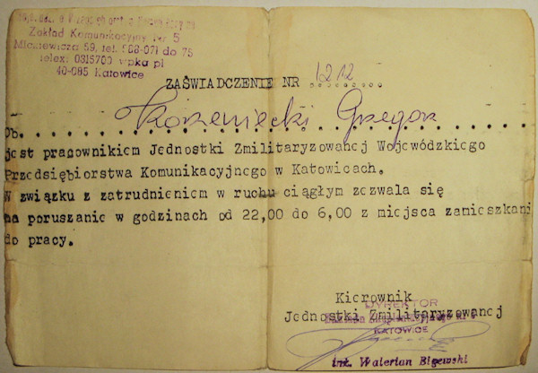 Confirmation that the holder is a full-time employee and can walk from home to job between 10 PM and 6 AM. (1981; Martial law in Poland)